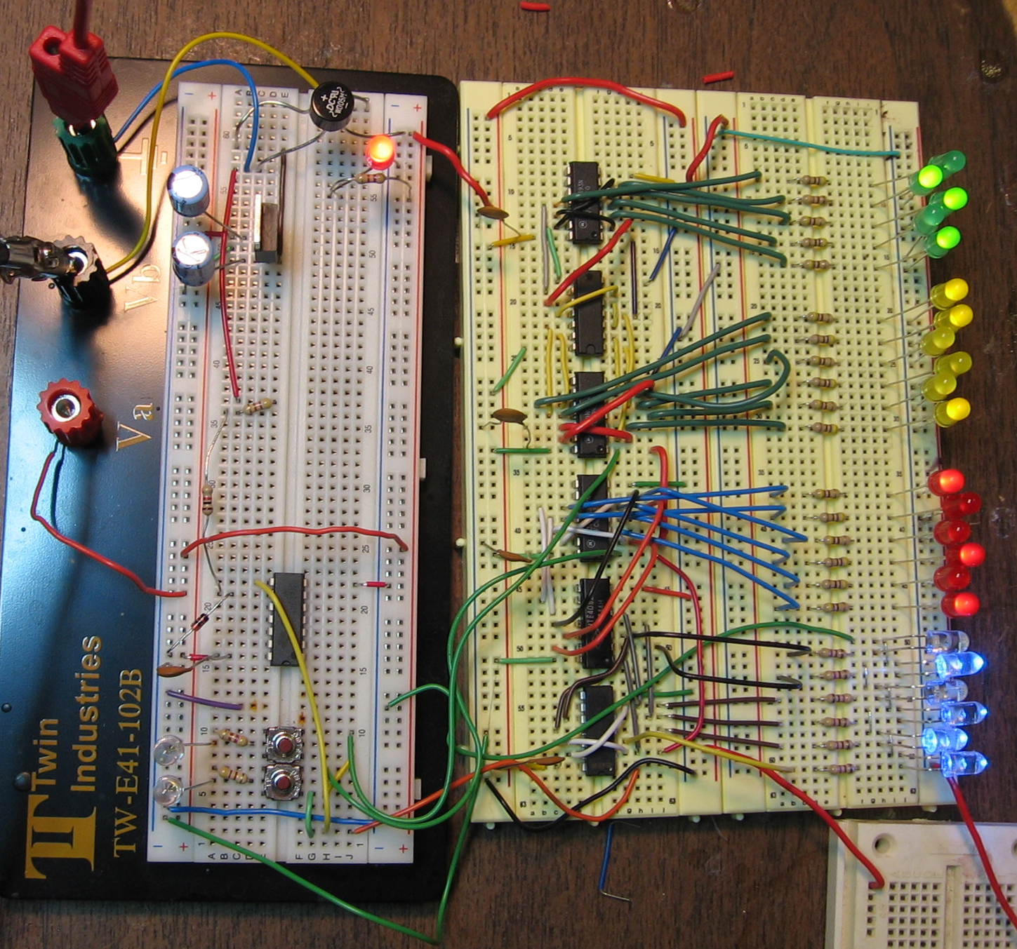 Digital Clock Circuit